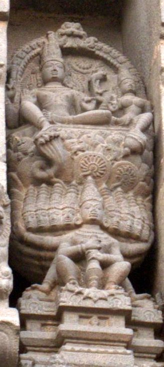 Ravanaugraha, Thiruvannamalai